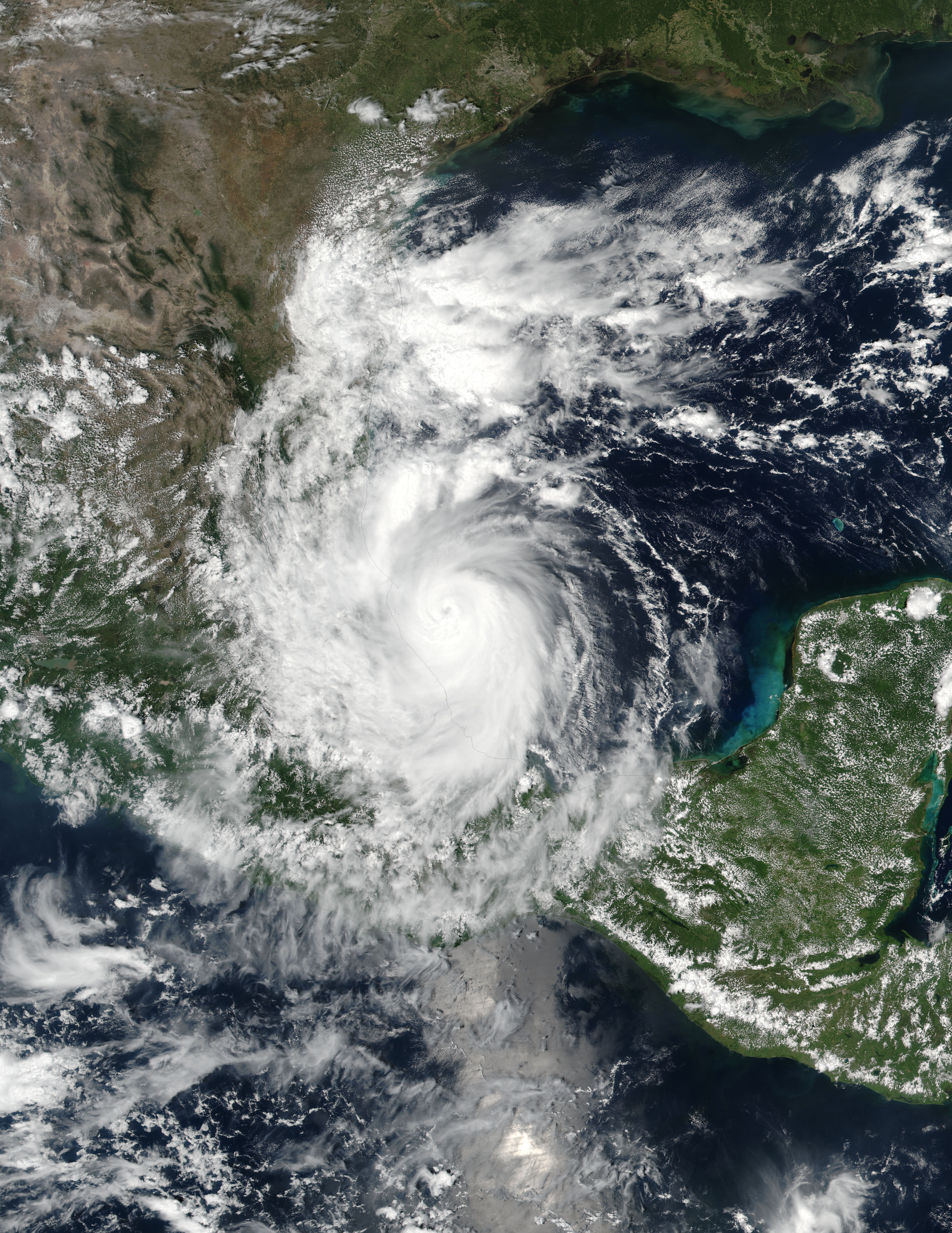 Hurricane Katia (13L) over Mexico